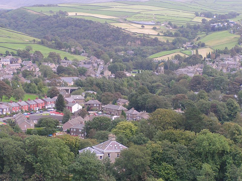 Hayfield, Derbyshire from the northwest. Photograph taken 11th September 2004.